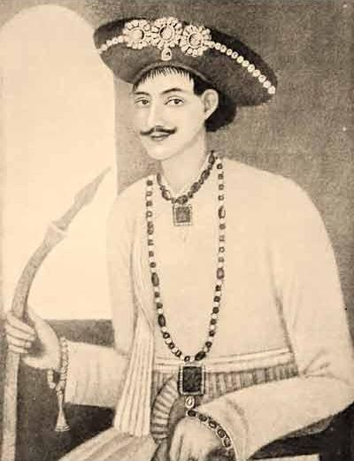 Shuja ud-Daulah, Nawab of Bengal